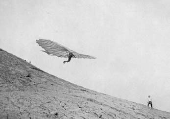 Otto Lilienthal's "flight hill", near Berlin, Germany